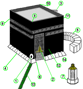 Drawing of the Kaaba. Labeled elements are as follows: 1 - The Black Stone; 2 - Door of the Kaaba; 3. Gutter to remove rainwater; 4 - Base of the Kaaba; 5 - Al-Hatim; 6 - Al-Multazam (the wall between the door of the Kaaba and Black Stone); 7 - The Station of Ibrahim; 8 - Corner of the Black Stone; 9 - Corner of Yemen; 10 - Corner of Syria; 11 - Corner of Iraq; 12 - Kiswa (black veil covering the Kaaba); 13 - marble band of marking the beginning and end of rounds; 14 - The Station of Gabriel.